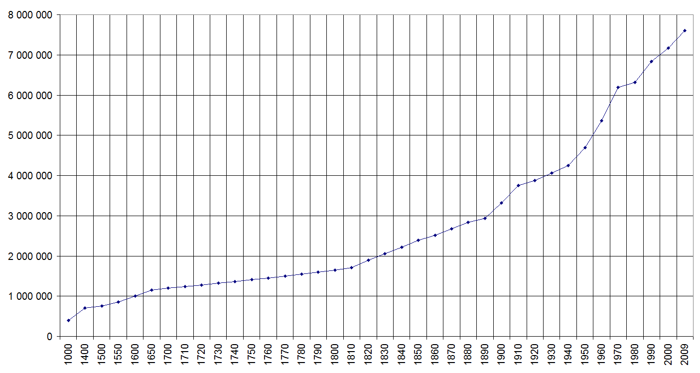 Switzerland's population (1000-2009).